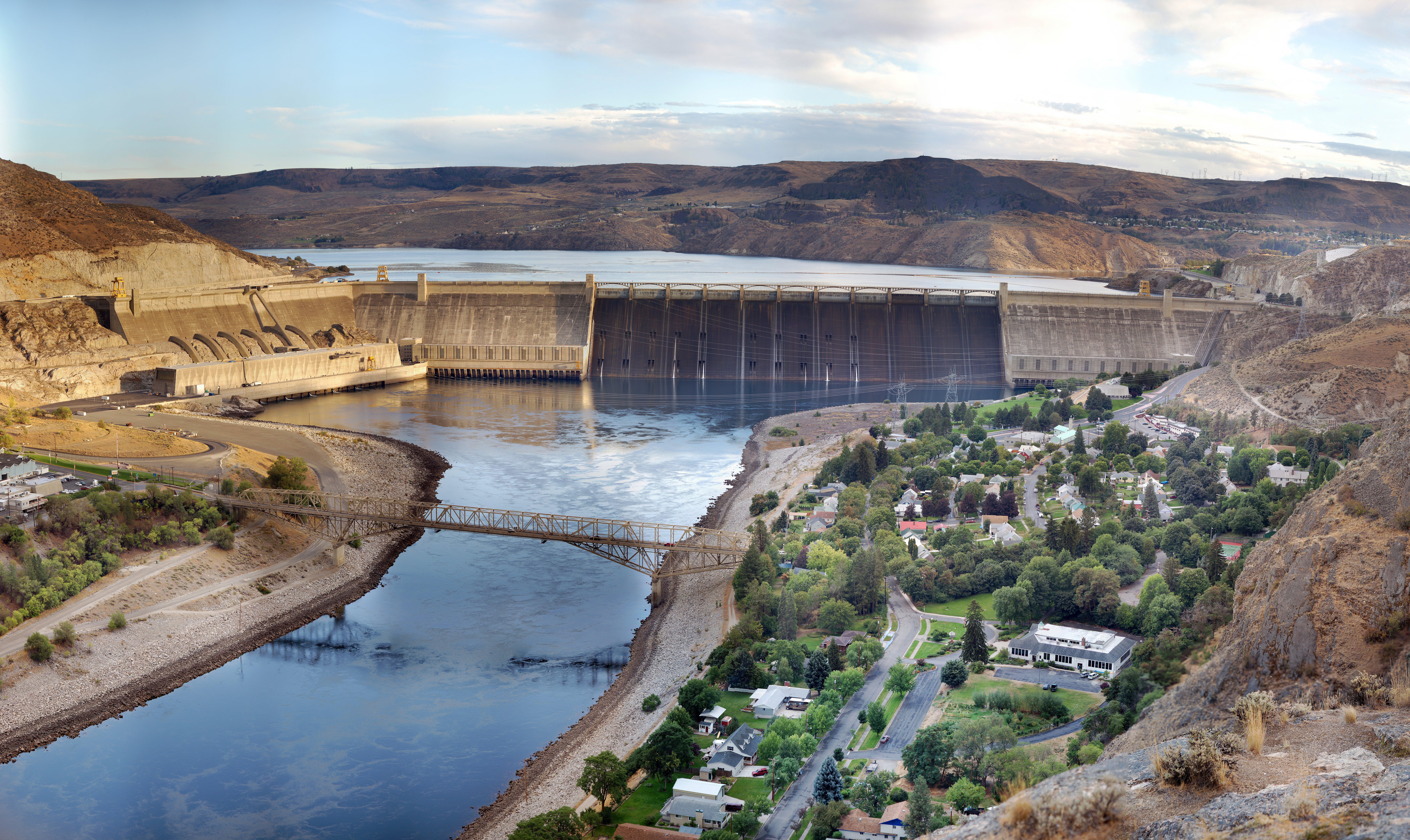 120° panorama of the Grand Coulee Dam as seen on a September evening.